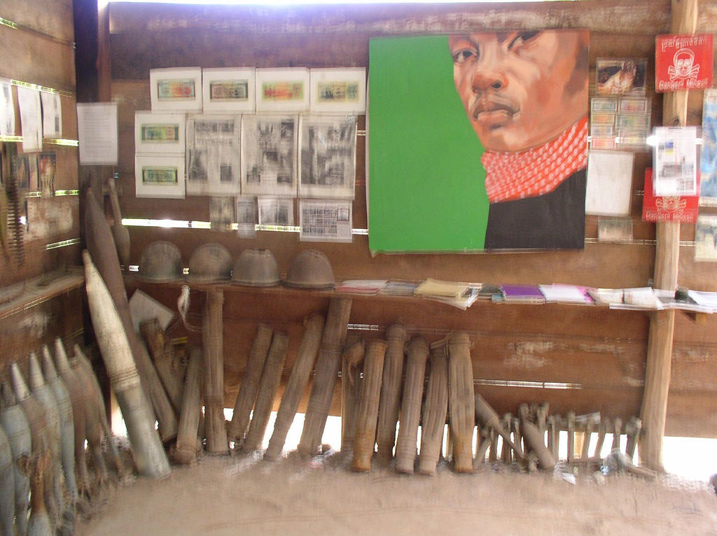 One of my more rewarding experiences in Cambodia for I got to talk to the wounded children victims of landmines. They were like every other teenage guy, high-spirited and curious -- except with missing limbs.